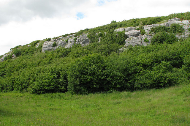 Bluffs immediately southwest of Cahercommaun Cliff fort